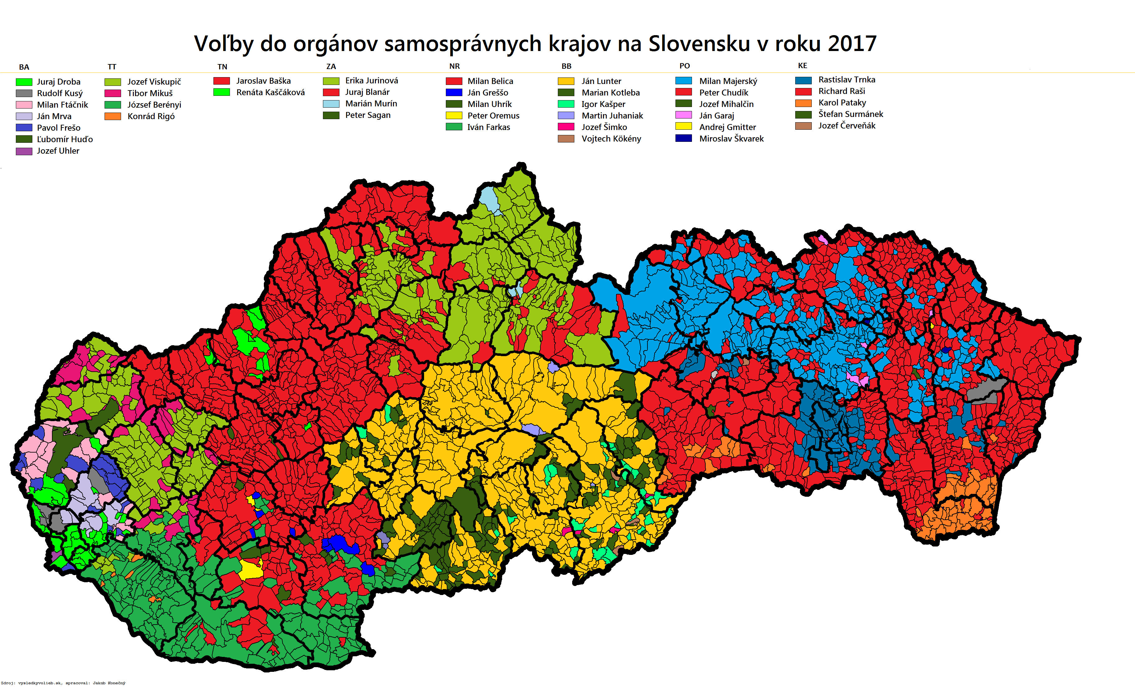 Winning candidates at the municipial level at 2017 Slovak regional elections